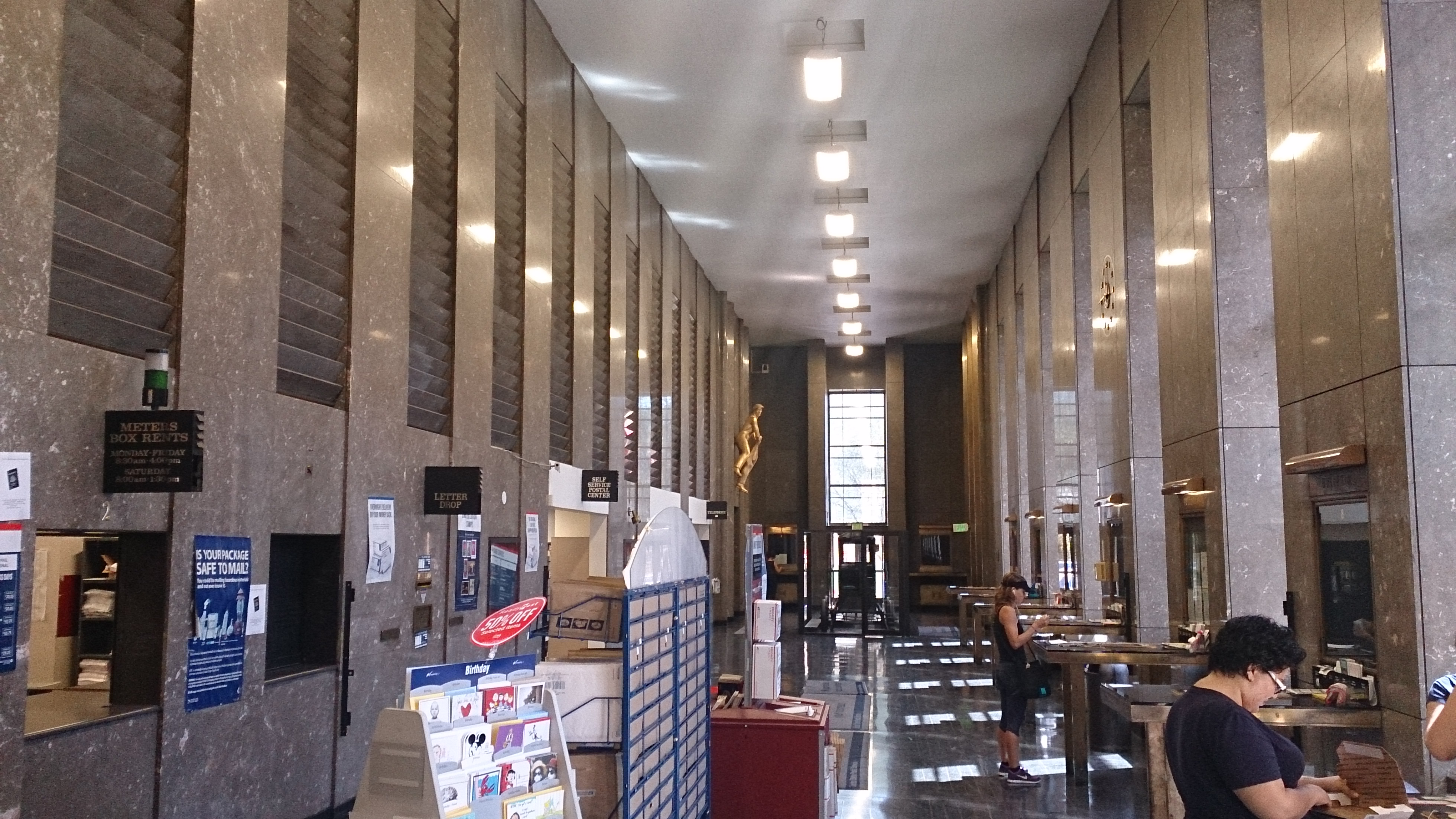 Inside Evanston Post Office on Davis street